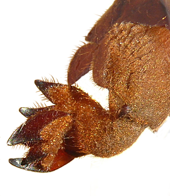 front leg of Gryllotalpa sp.